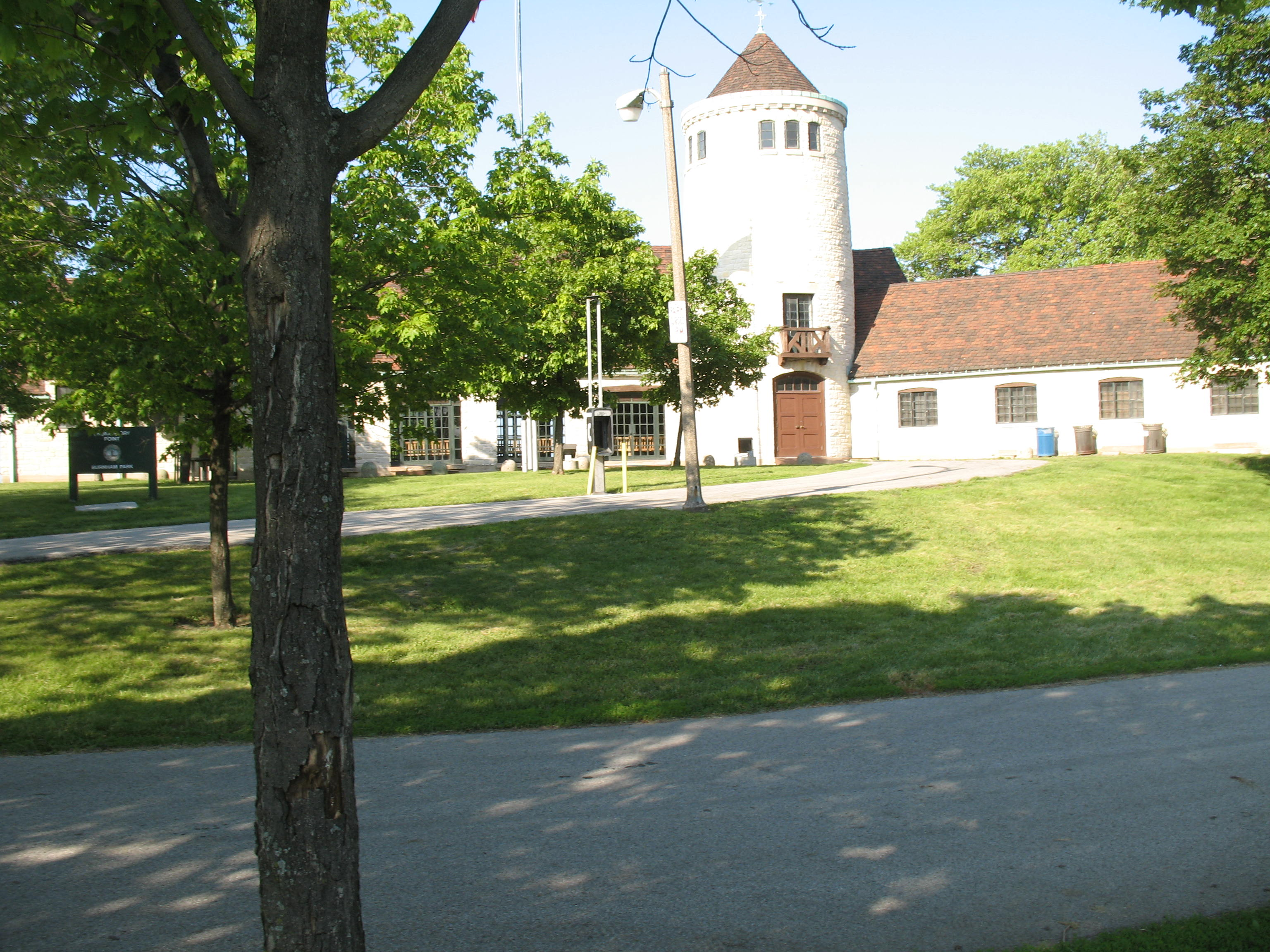 Promontory Point "fieldhouse"